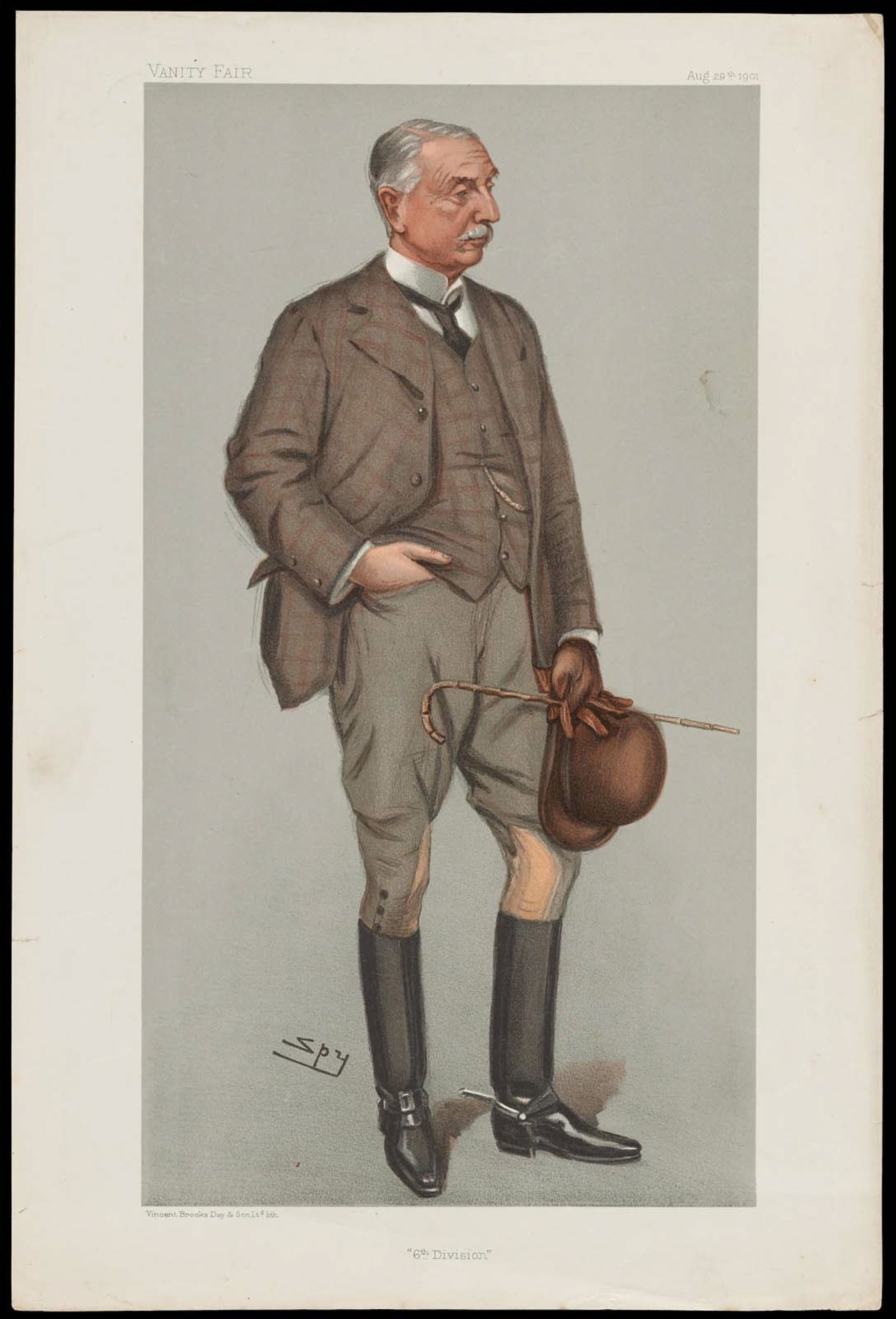 Men of the Day No.0821: Caricature of Gen T Kelly-Kenny CB. Caption reads: "6th Division"